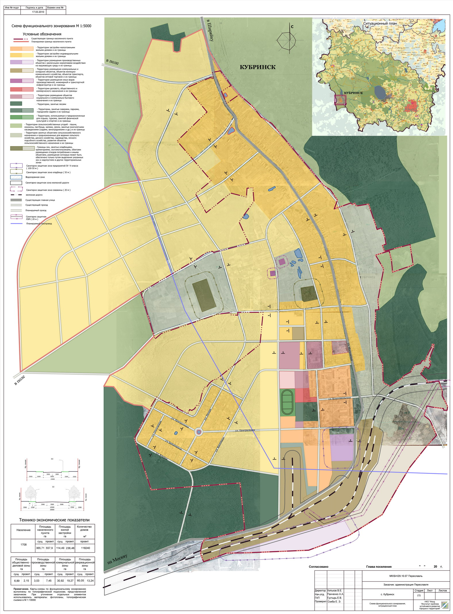 General plan of Nagorye rural settlement (Yaroslavl Oblast) 2008. Kubrinsk.